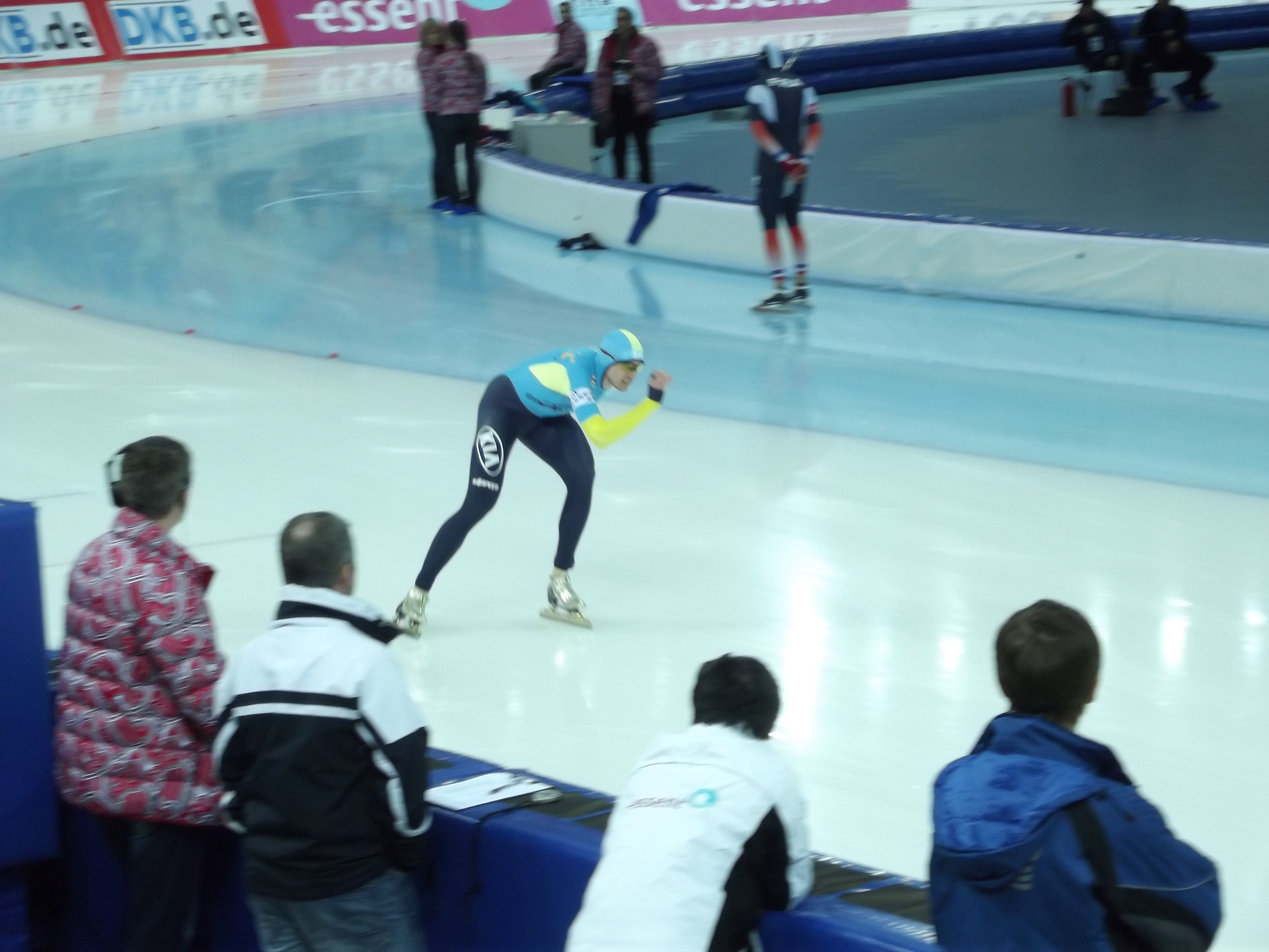 2013 World Single Distance Speed Skating Championships